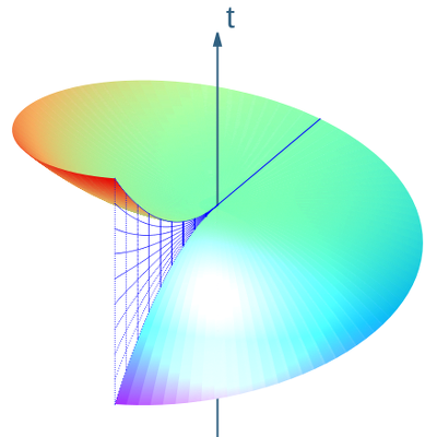 This figure depicts, in the Born chart, the desynchronization of clocks carried by observers riding on a rigidly rotating disk. The z coordinate is inessential and has been suppressed in the figure. Consider integral curves of the third spacelike Langevin frame vector p → 3 = 1 − ω 2 r 2 1 r ∂ ϕ + ω r 1 − ω 2 r 2 ∂ t {\displaystyle {\vec {p _{3}={\sqrt {1-\omega ^{2}\,r^{2 }\,{\frac {1}{r \,\partial _{\phi }+{\frac {\omega \,r}{\sqrt {1-\omega ^{2}\,r^{2 \,\partial _{t which pass through ϕ = 0 , t = 0 {\displaystyle \phi =0,\,t=0} . As the figure shows, we can use these to form a spatial hyperslice. But two things go wrong. First, the spatial hyperslice we obtain only contains the second spacelike Langevin frame vector p → 2 = ∂ r {\displaystyle {\vec {p _{2}=\partial _{r along one radius. By the Frobenius integrability theorem, it is in fact impossible to find a spatial hyperslice to which the unit vector fields p → 2 , p → 3 {\displaystyle {\vec {p _{2},\;{\vec {p _{3 are tangent. The Frobenius integrability theorem can be viewed in terms of the failure of our two vector fields to form a two-dimensional Lie algebra of vector fields, so this is Lie theoretic obstruction to defining spatial hyperslices for the Langevin observers. Second, as the figure shows, our spatial hyperslice is not only non-orthogonal to most of our Langevin observers, it also leads to a discontinuity (the coral colored vertical "jump"). If we tried to define a slicing of Minkowski spacetime into a family of spatial hyperslices isometric to this one, we would be forced to allow multiple valued time. This obstruction is global and arises from our inability to synchronize the clocks of Langevin observers riding even a ring, much less a disk (which we can think of as formed from concentric rings). This figure was created by User:Hillman using Maple to export a jpg image and eog to convert this to a png image.